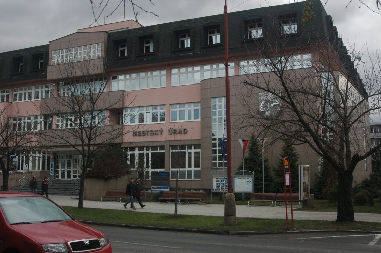 City Hall, Senica, Slovakia